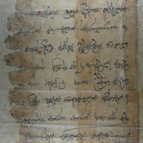 A charter issued by King George V of Georgia